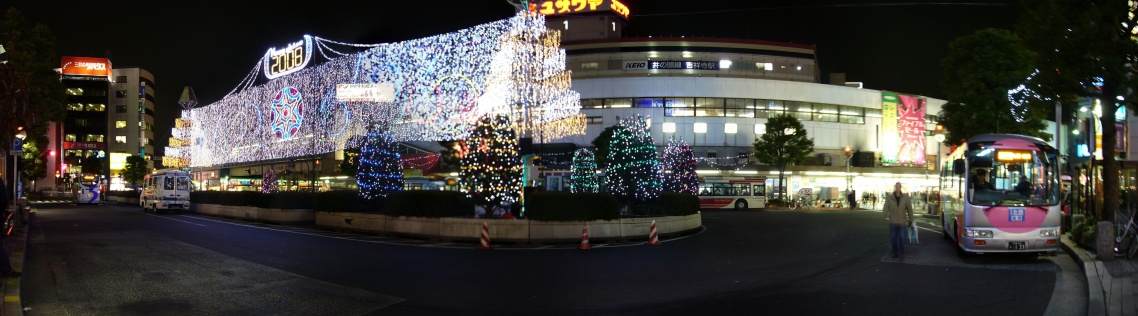 Panaroma of Kichijoji Station entrance